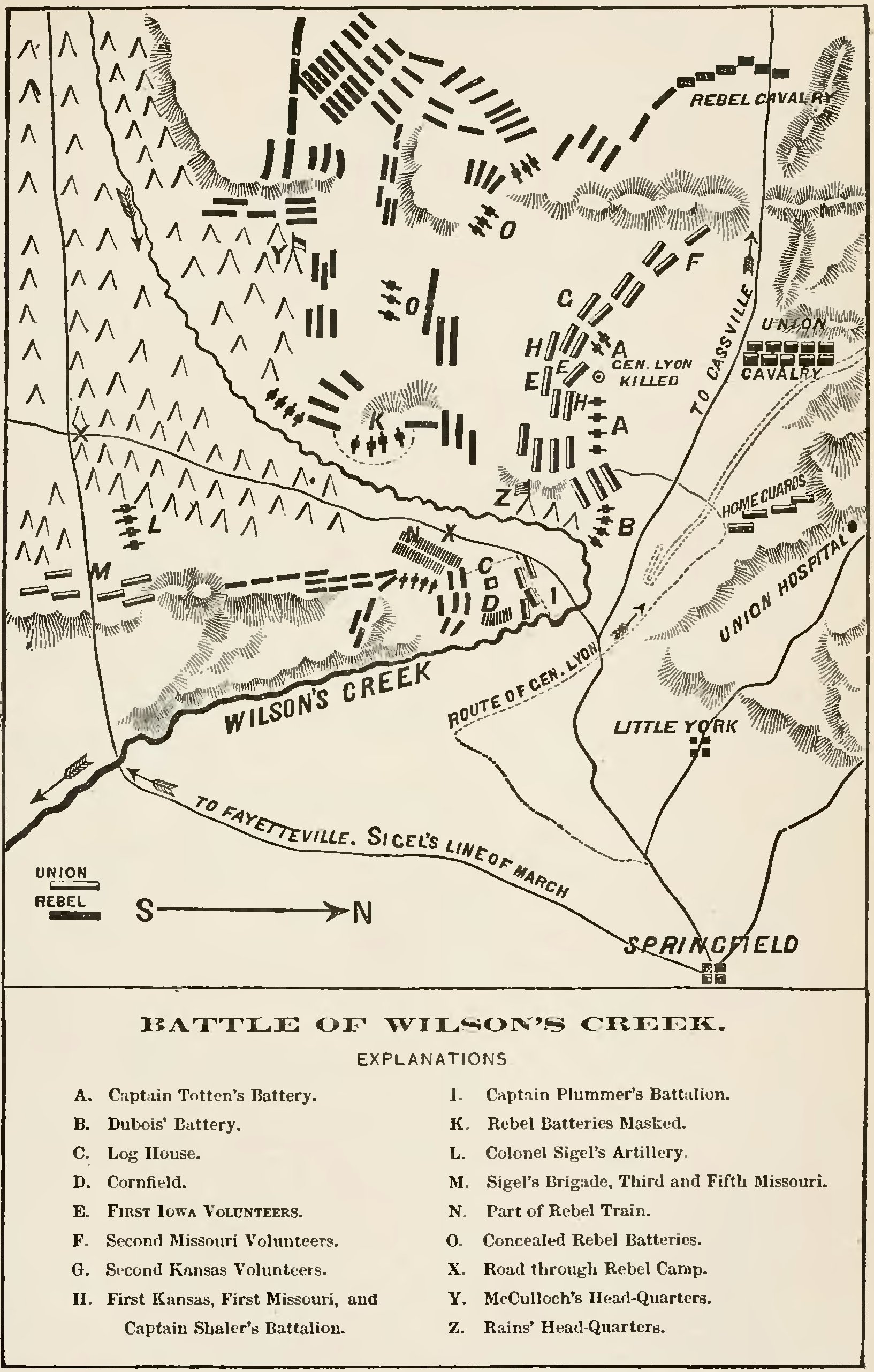 Illustration in History of Iowa From the Earliest Times to the Beginning of the Twentieth Century